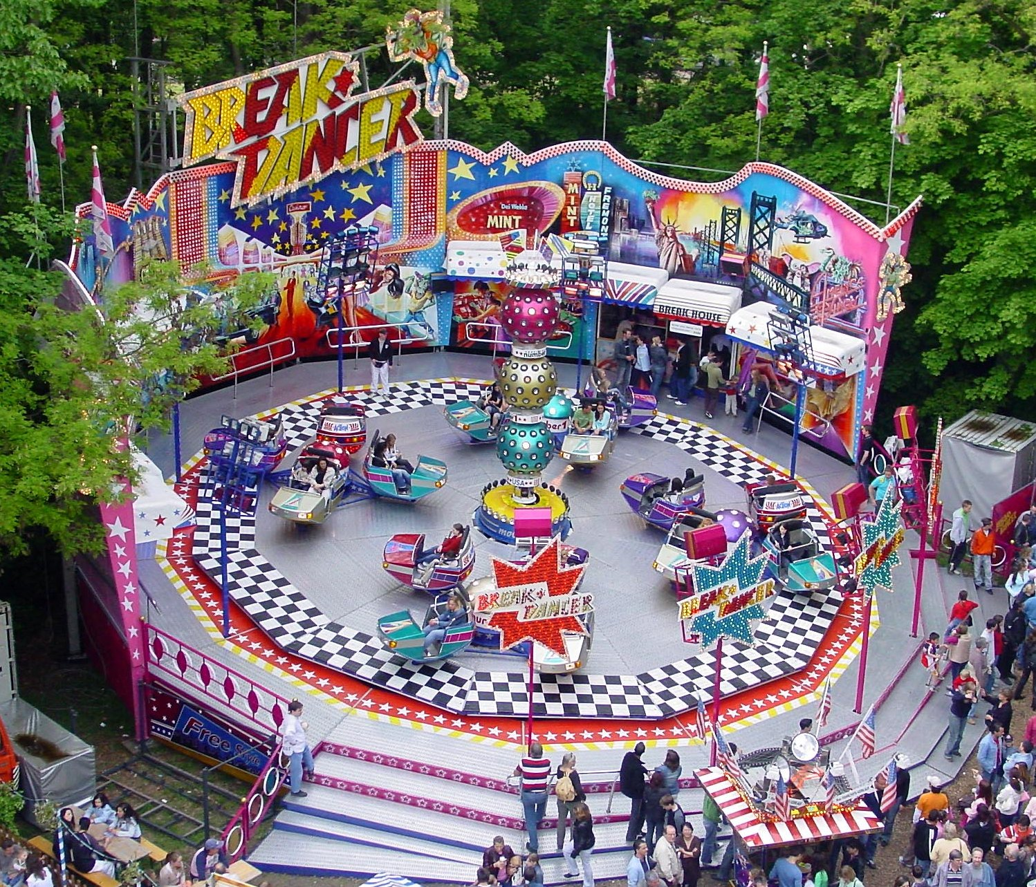 Breakdancer, distributed by Müller & Sohn Breakdancer oHG, Frankfurt am Main at Wäldchestag